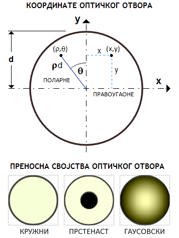 ОПТИЧКИ ОТВОР, КООРДИНАТЕ И ПРЕНОСНА СВОЈСТВА